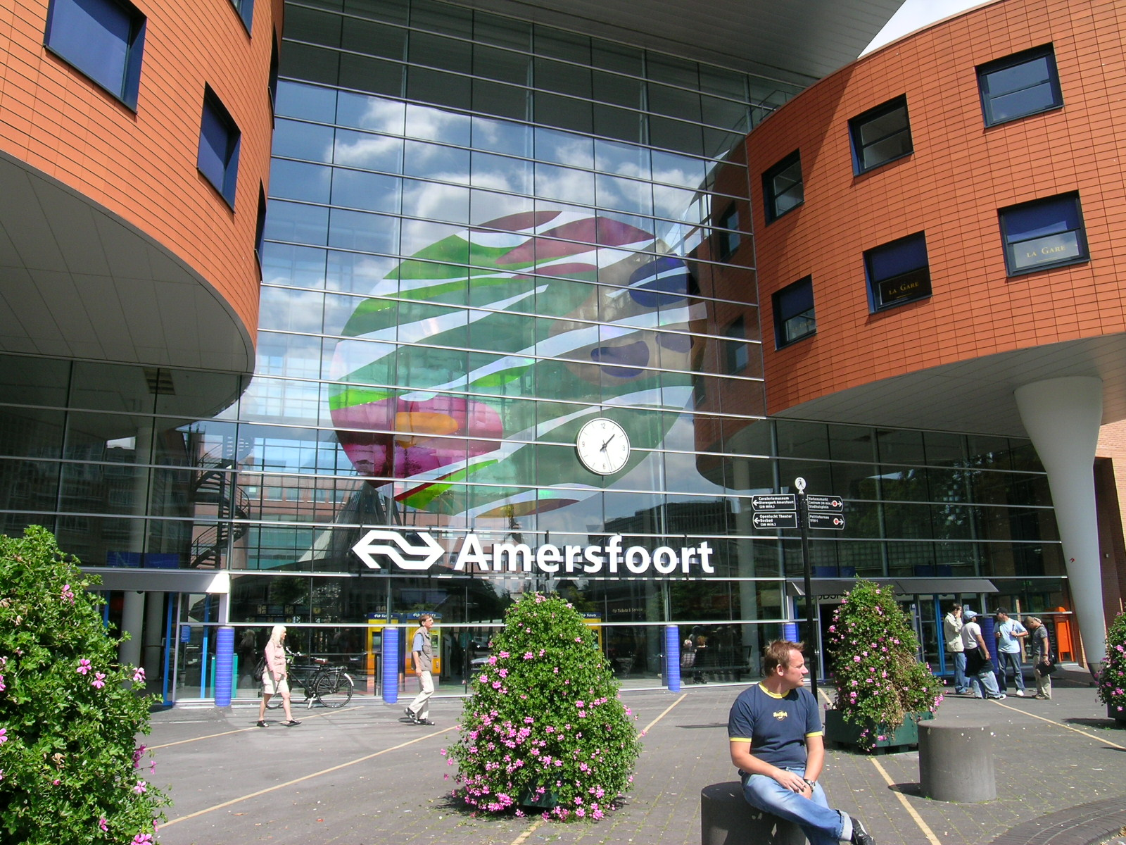 Hoofdingang Station Amersfoort